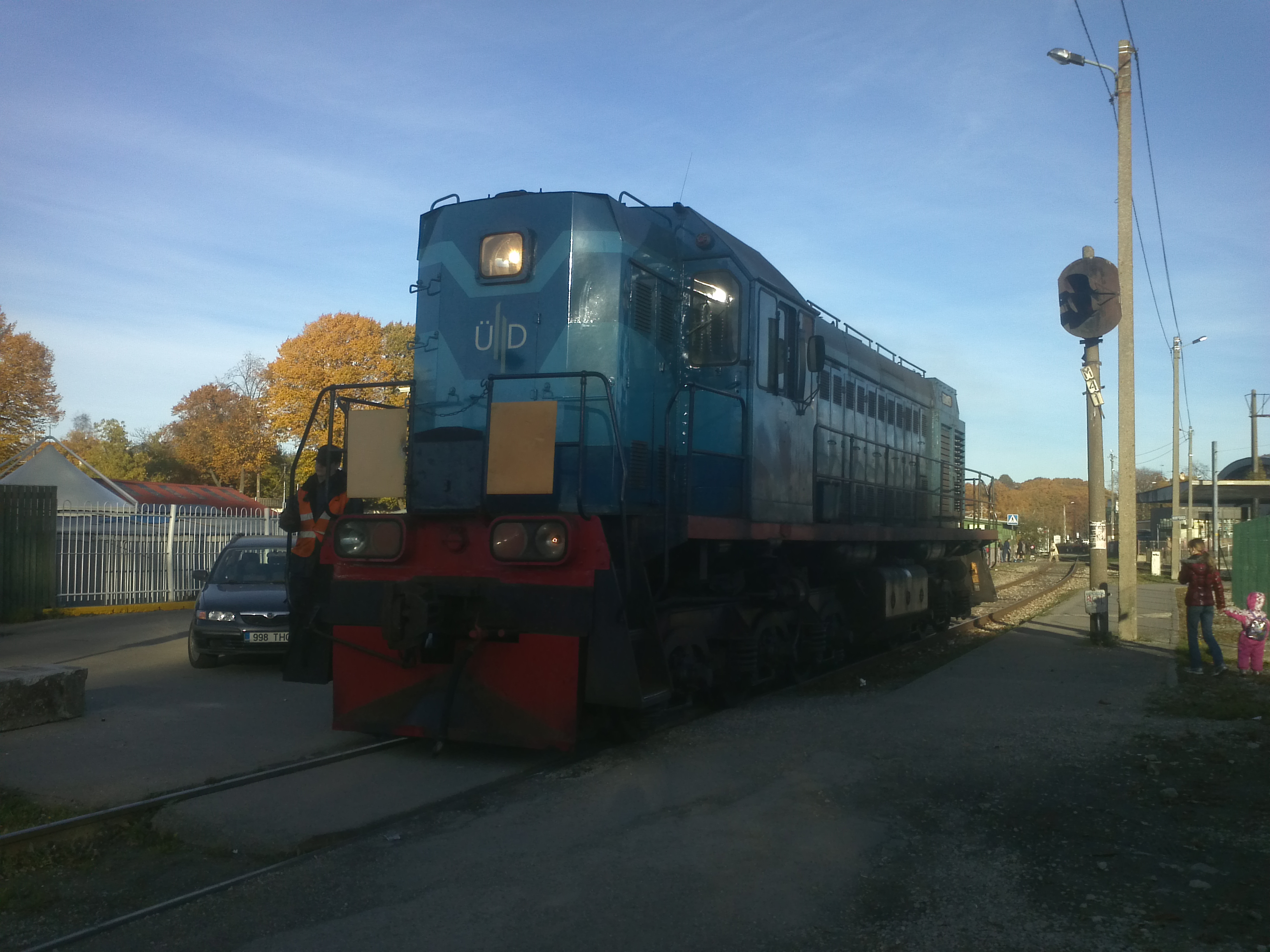 Locomotive in Tallinn, Estonia